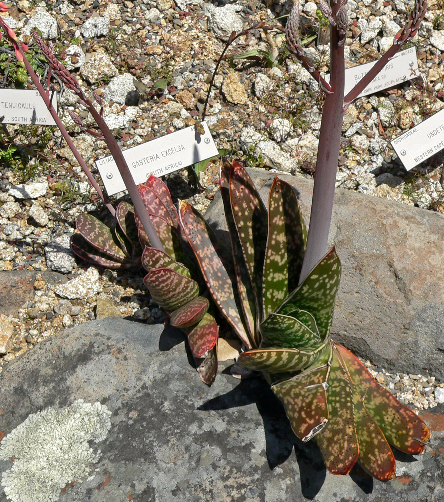 Gasteria excelsa at the University of California Botanical Garden, Berkeley, California